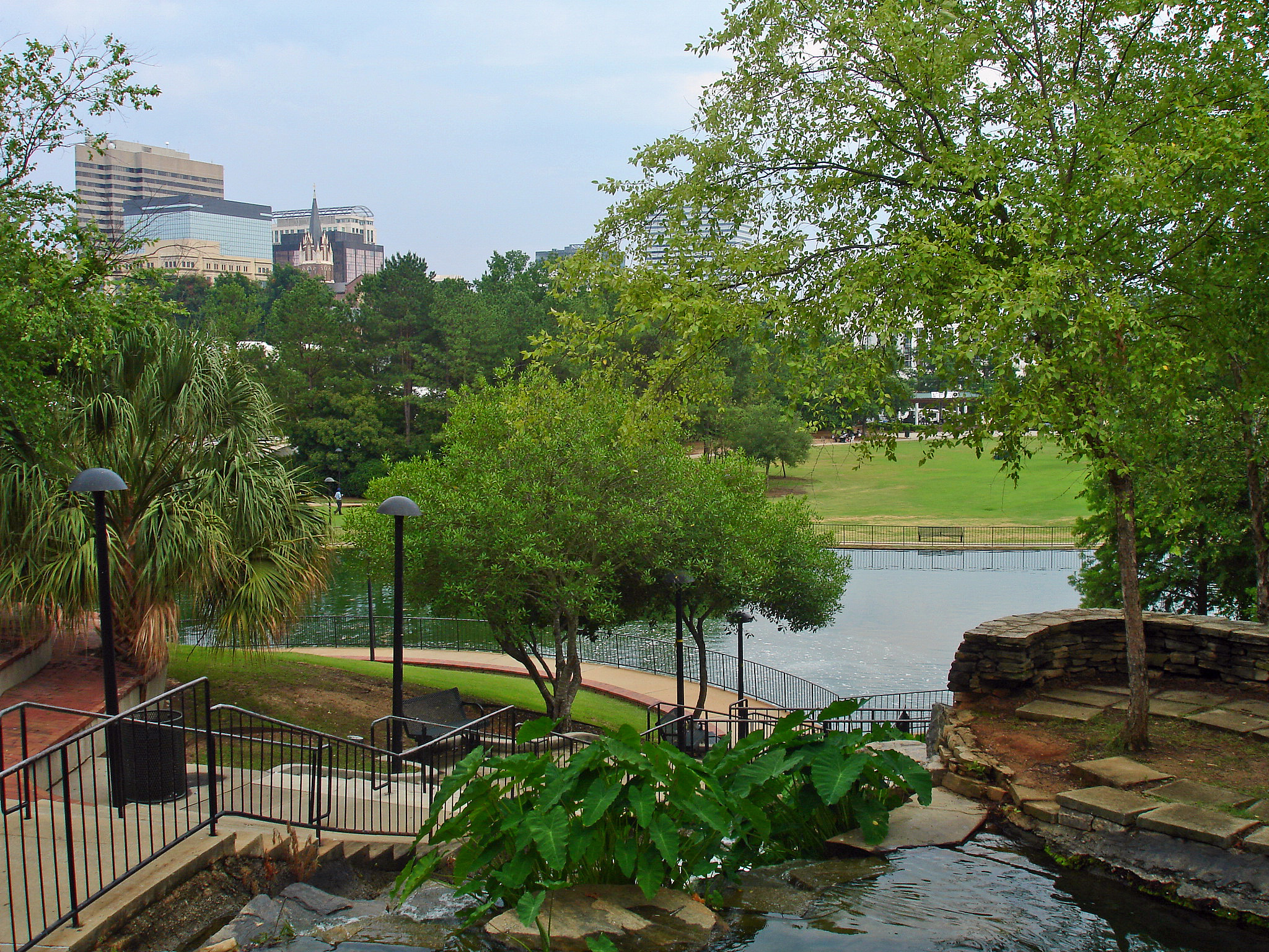 Finlay Park in downtown Columbia, South Carolina, USA